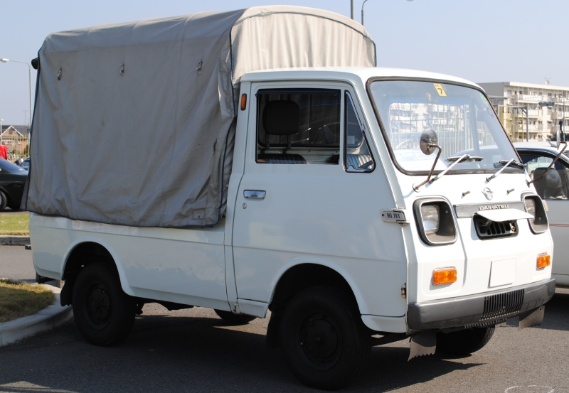 Daihatsu Hijet.